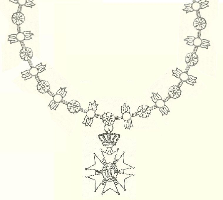 Collar the Order of Saint Joseph, Toscany and Wuerzburg 1807